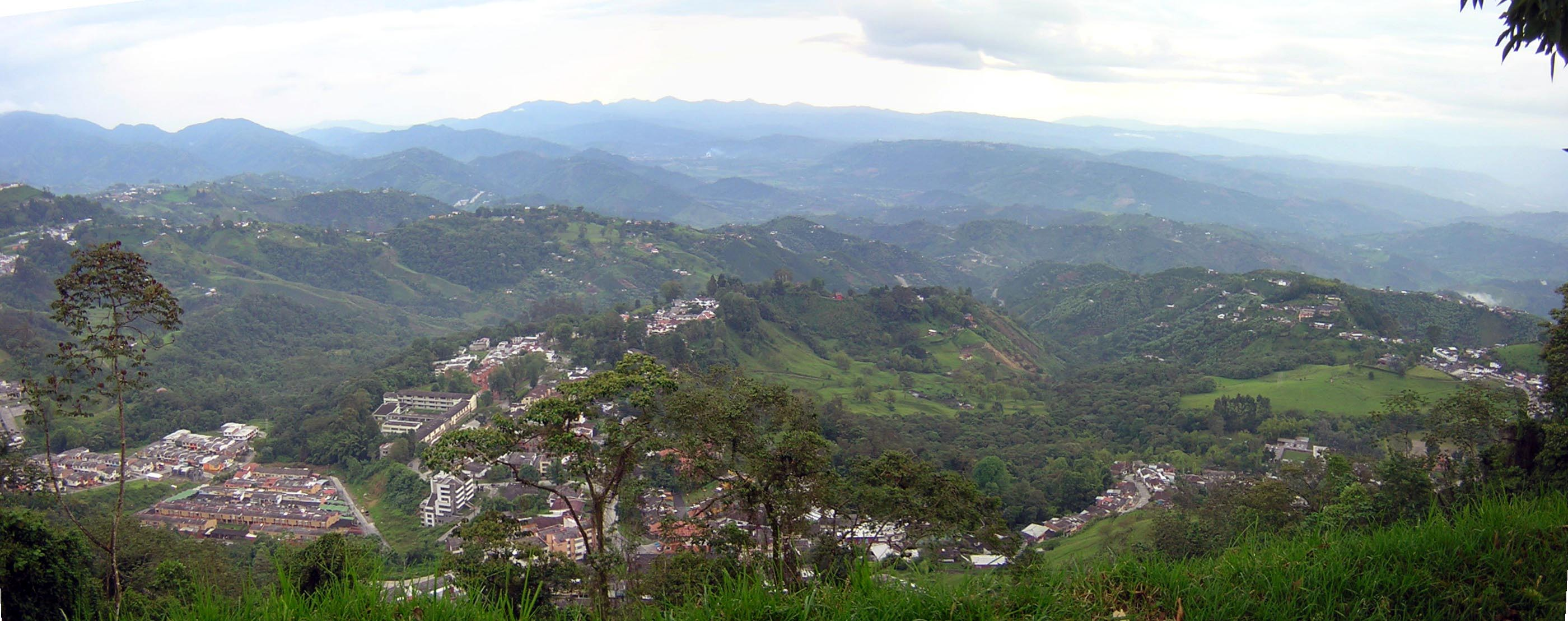 Landscape at Chipre. Manizales, Colombia